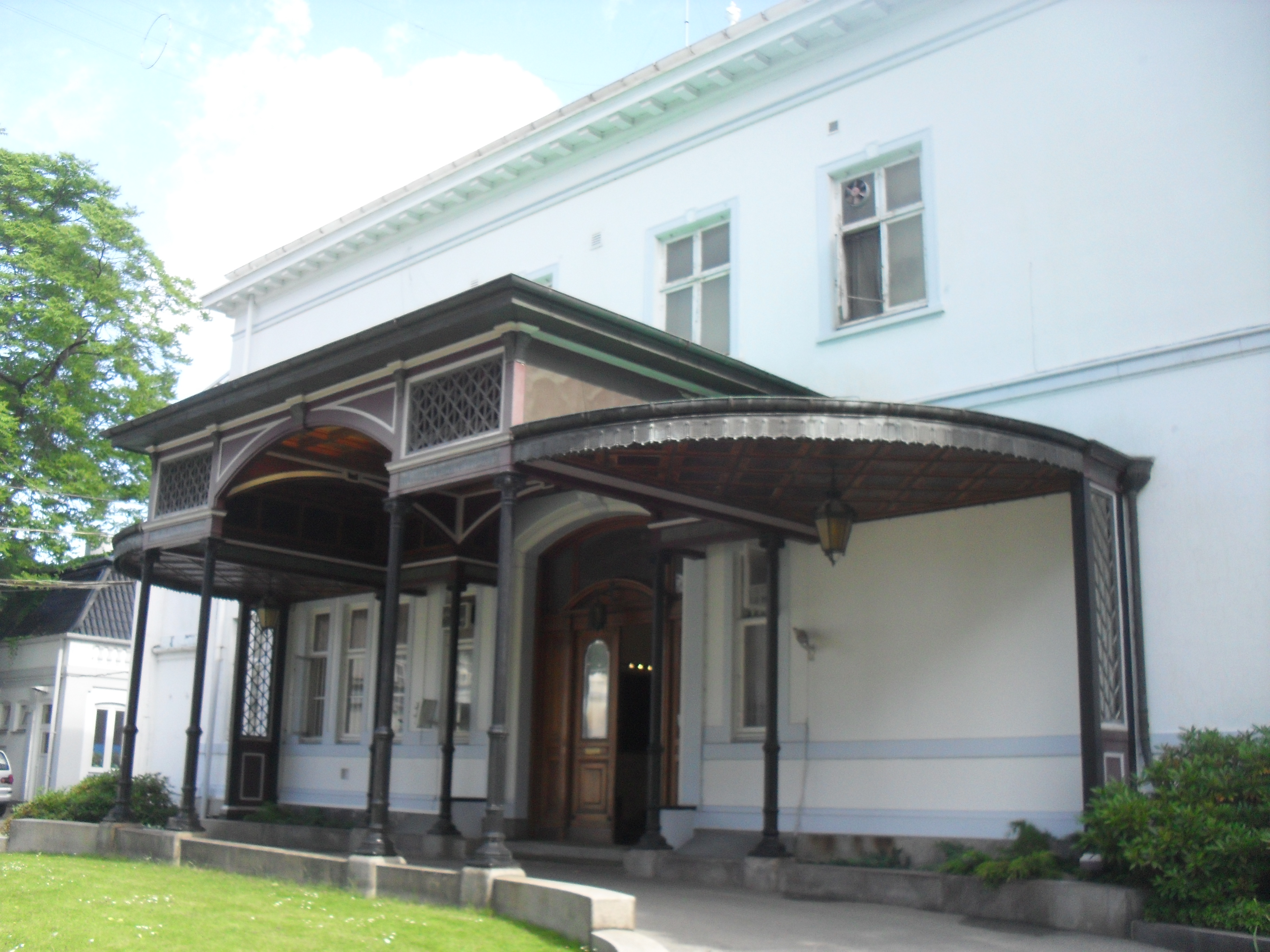 Entrance of Russian Embassy, Copenhagen